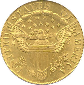 1803 Eagle, Turban Head, Reverse